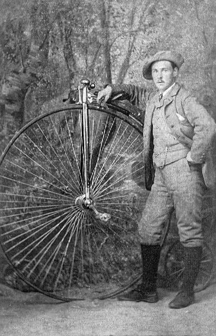 A cabinet card of a man with a penny-farthing bicycle, produced at Ladybank, Fife, Scotland, c.1880.